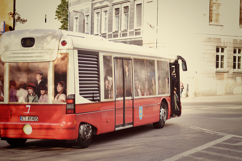 Mercedes-Benz 520 Cito bus (#289, built 2001), which has been stylized for a tram (line 7), on Mickiewicza street during the centenary of town communication system in Tarnów, Poland. MPK Tarnów operator (ex. De Lijn Mechelen, #303646).